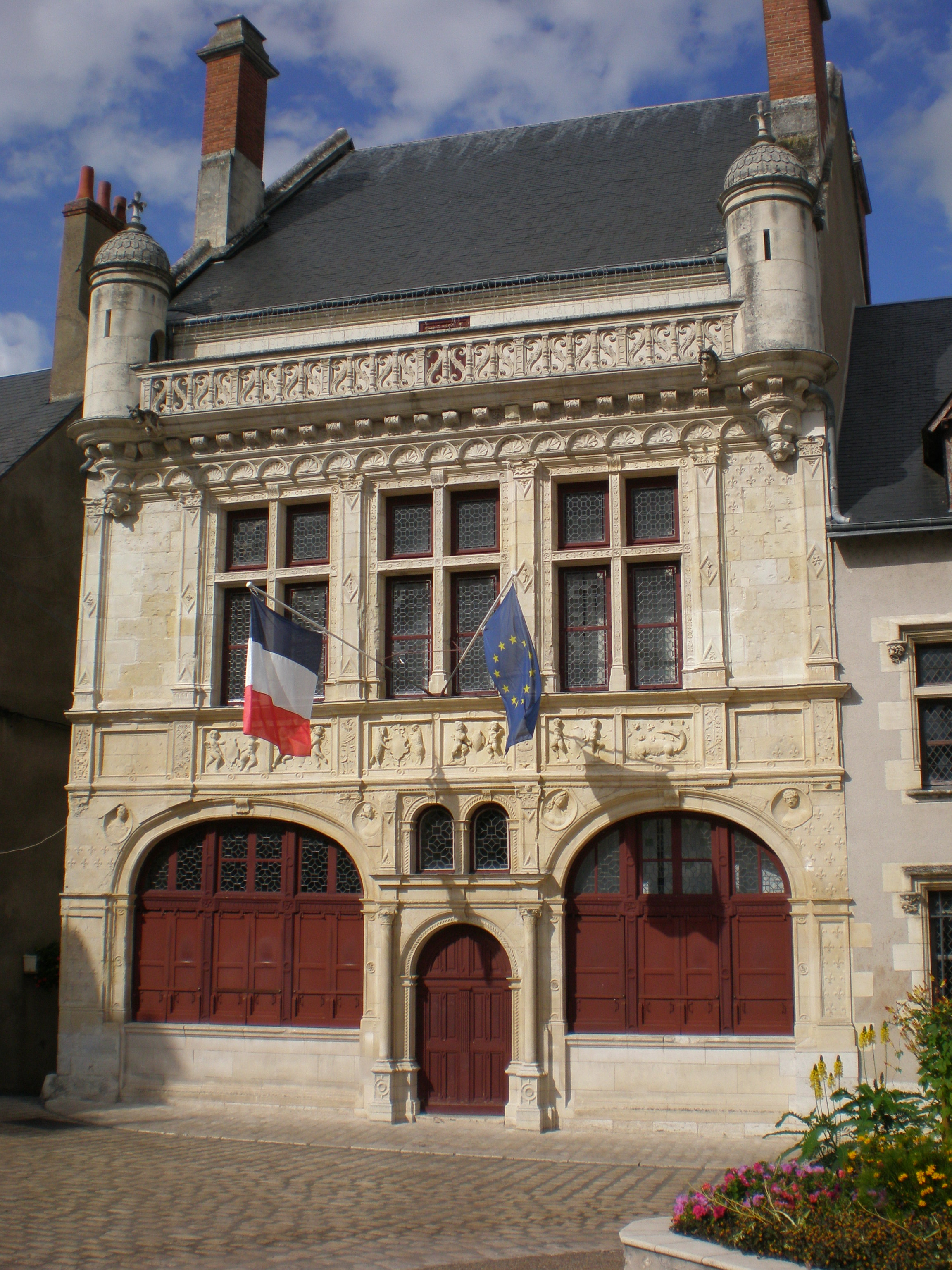 Old building in Beaugency